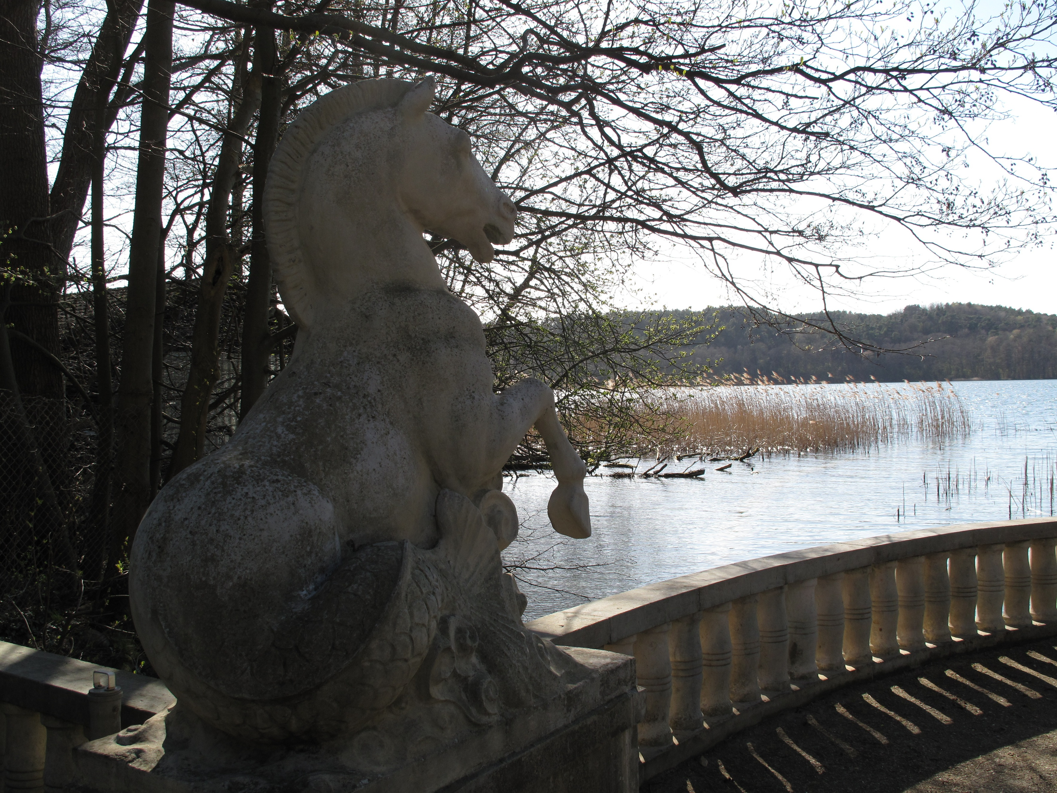 Listed Brecht-Weigel-Haus at the eastern shore of the Schermützelsee in the Bertolt-Brecht-Straße 29/30 in Buckow, District Märkisch-Oderland, Brandenburg, Germany. Bertolt Brecht and Helene Weigel were working in the summerhouse since 1952, Helene Weigel also after the death of Brecht in 1956. Since 1977 the house is used as museum and memorial to Brecht and Weigel. Listed is the whole ensemble, including some buildings as well as the garden with sculptures, sea-balustrade, water tower, boathouse and landing stage.